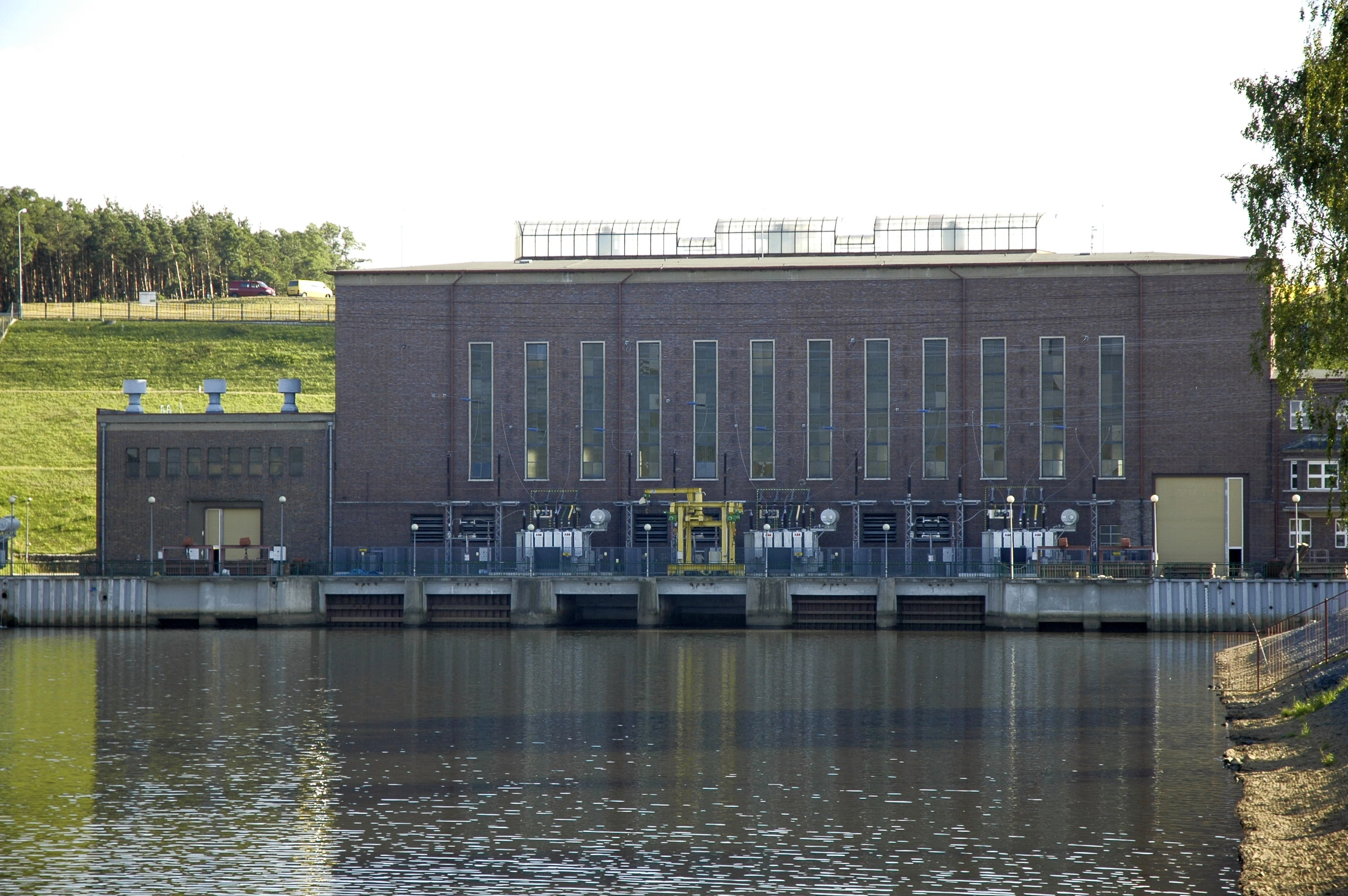 Hydroelectric power station at Dychów, Poland.